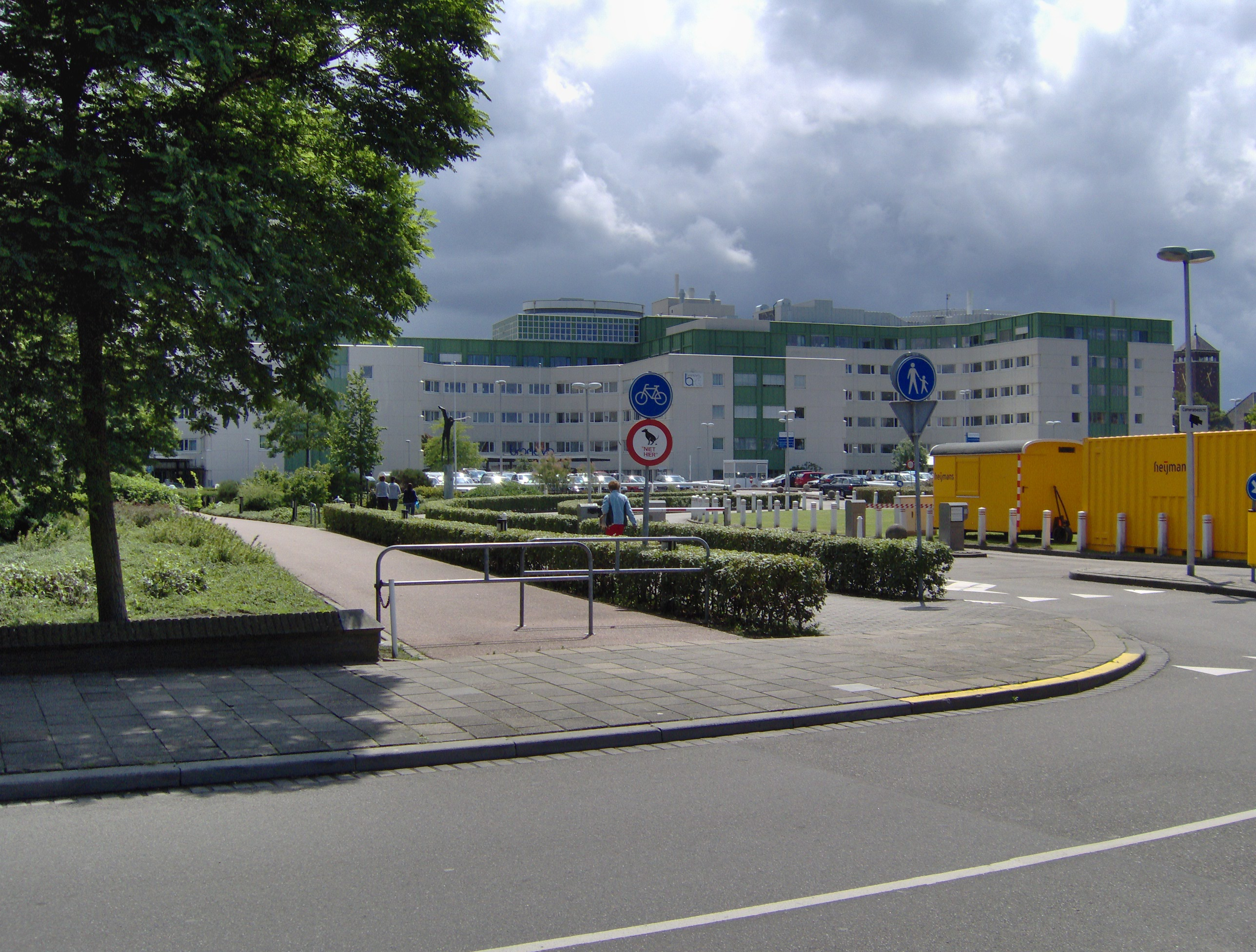 The Bronovo Hospital in The Hague, The Netherlands. Well known as the hospital where the main part of the recently newborn members of the Dutch royal family were born. Named for Sara Katharina de Bronovo